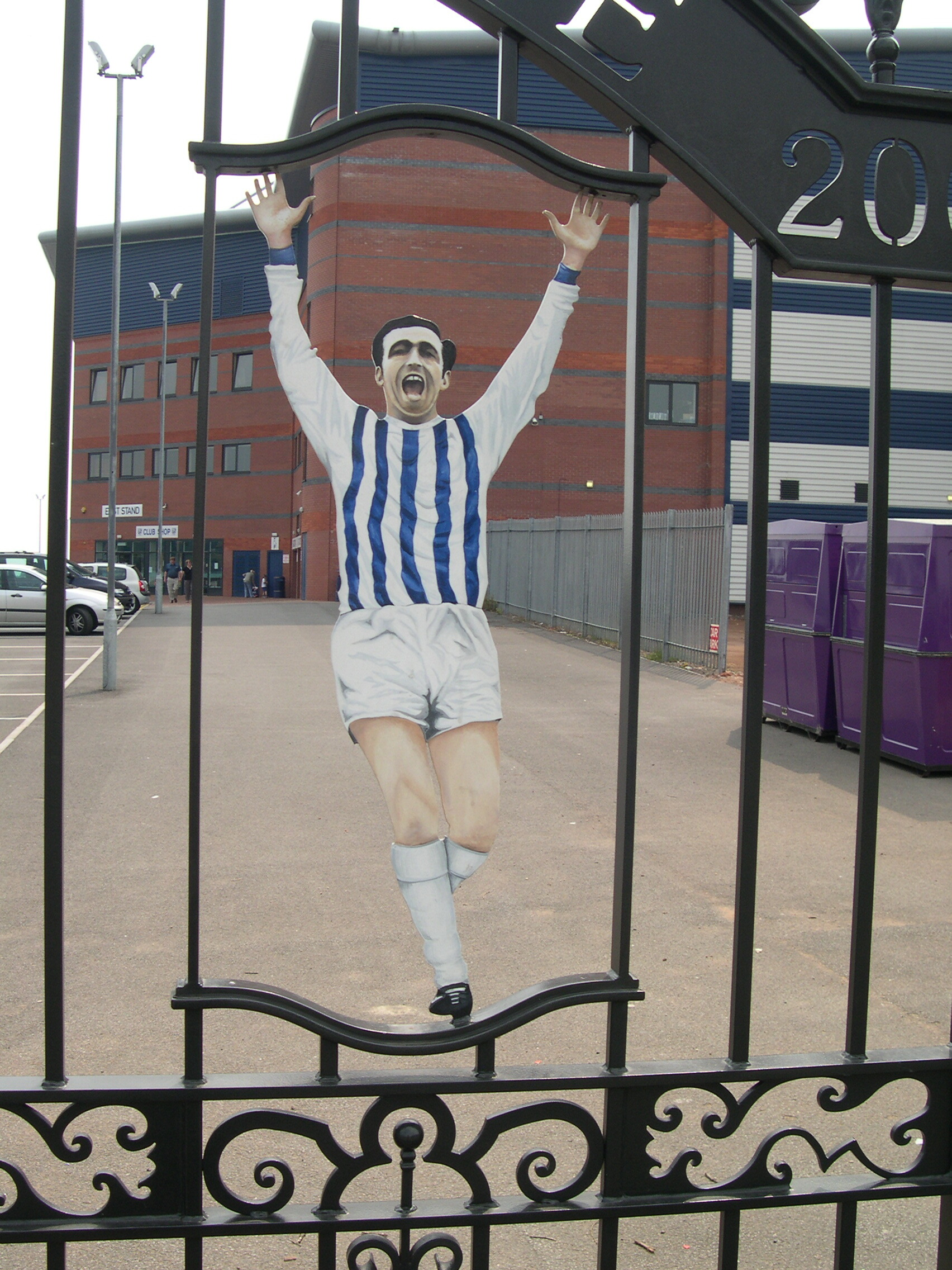 Portrait of West Bromwich Albion footballer Jeff Astle on the Astle Gates, The Hawthorns, West Bromwich. Portrait captures Astle celebrating his winning goal in the 1968 FA Cup Final. This photograph is the work of and copyright property of Anthony Cutler.